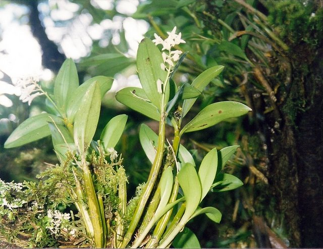 Dendrobium moorei in flower on the summit cloud forest of Mount Gower, Lord Howe Island, Australia